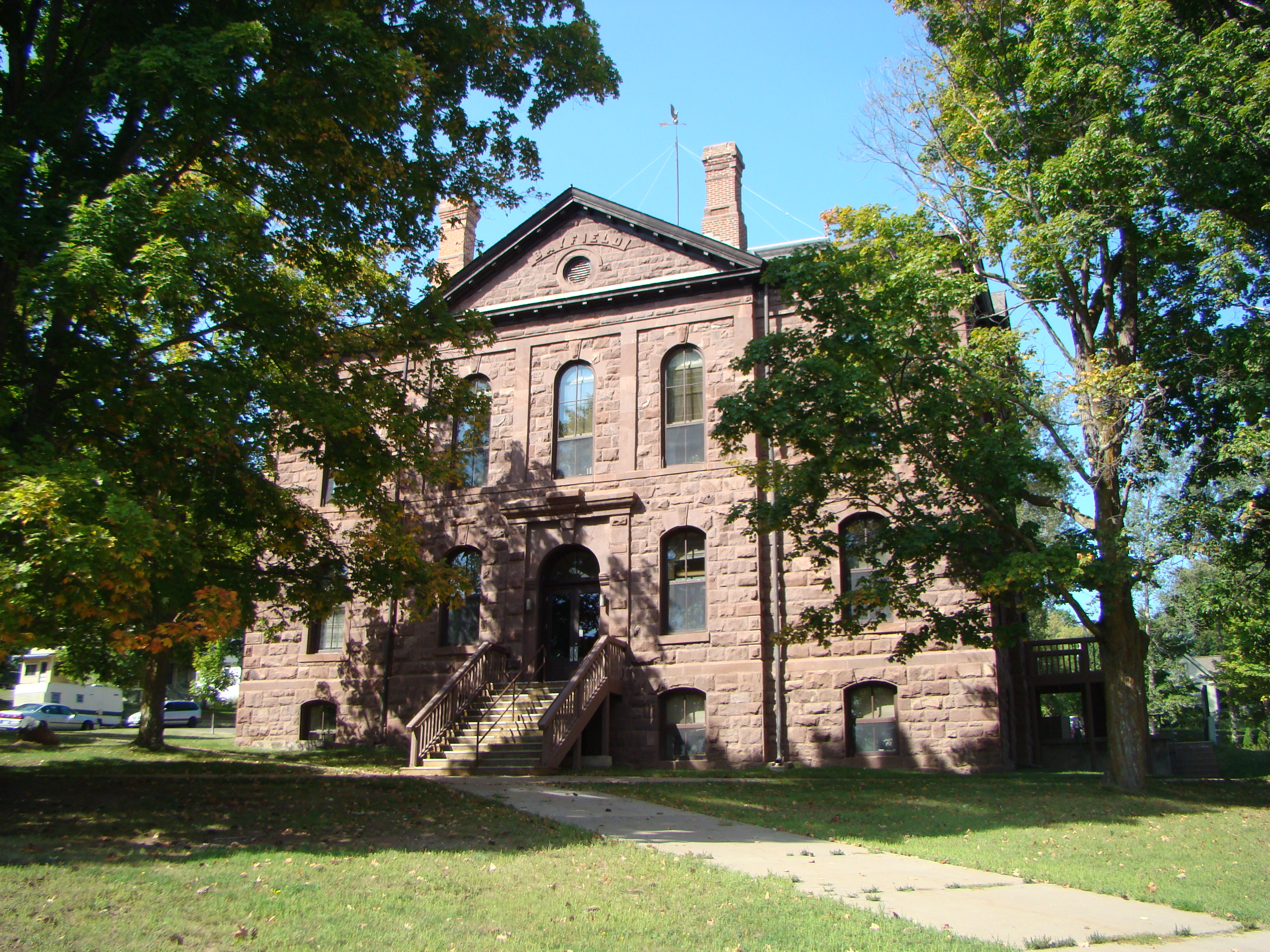 Old Bayfield County Courthouse